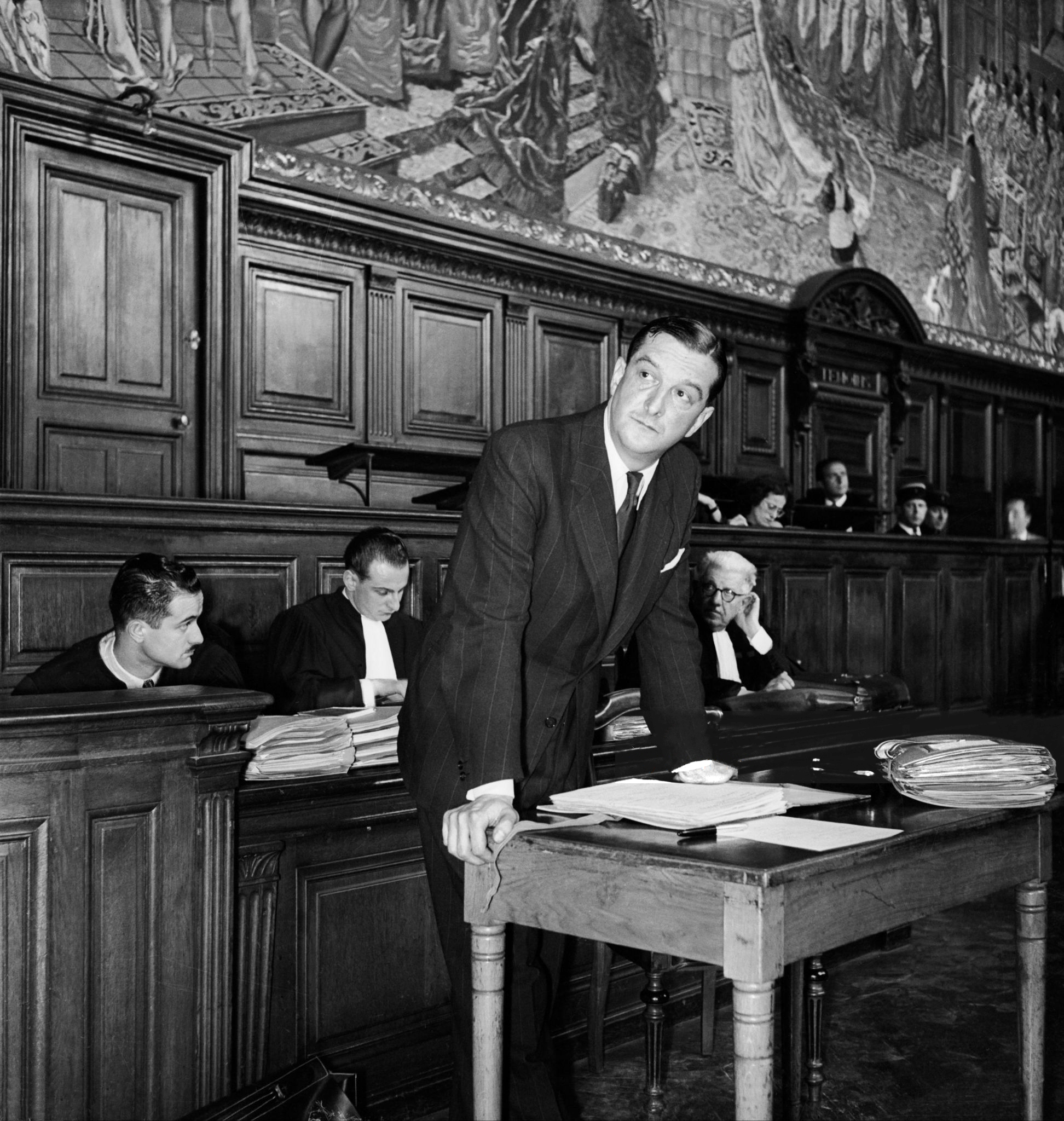 Trial Of The Former Prefet Of Marne, Reginal Prefet Of Champagne And The General Secretary Of The Police Of Vichy And Of Paris Under The Occupation, Before The High Court Of Justice.